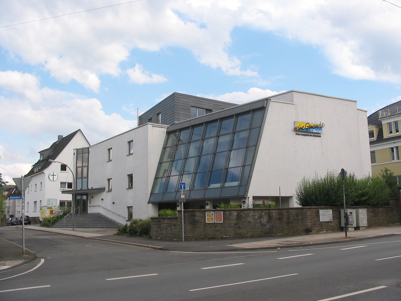 church of evangelical community Freie evangelische Gemeinde (FEG) in Witten-Bommern